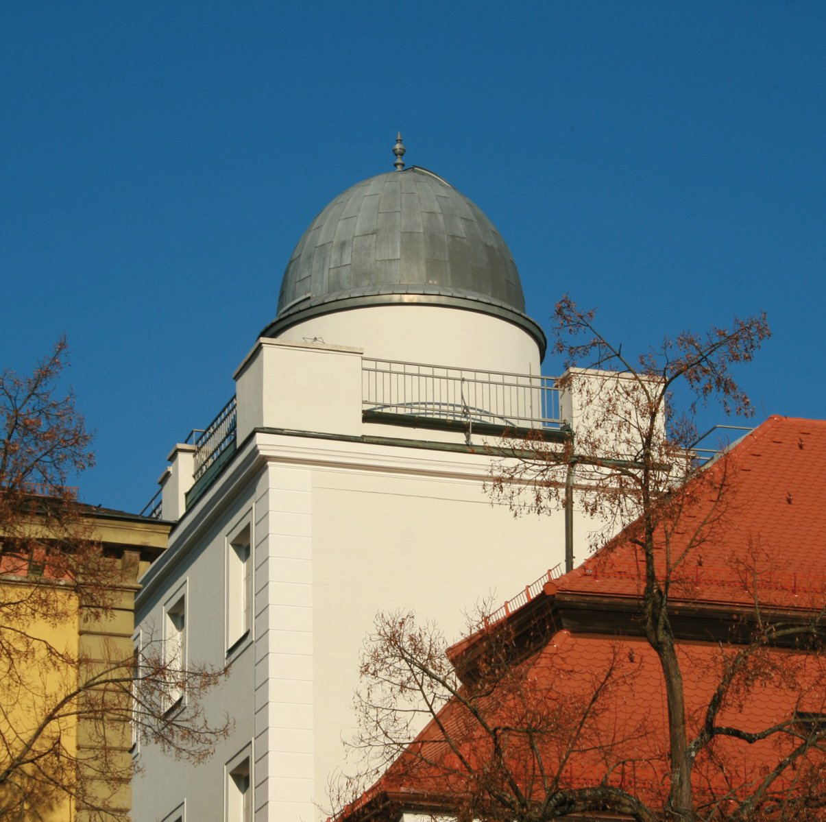 Dome of the observatory in Regensburg, Ägidienplatz, Regensburg, Germany